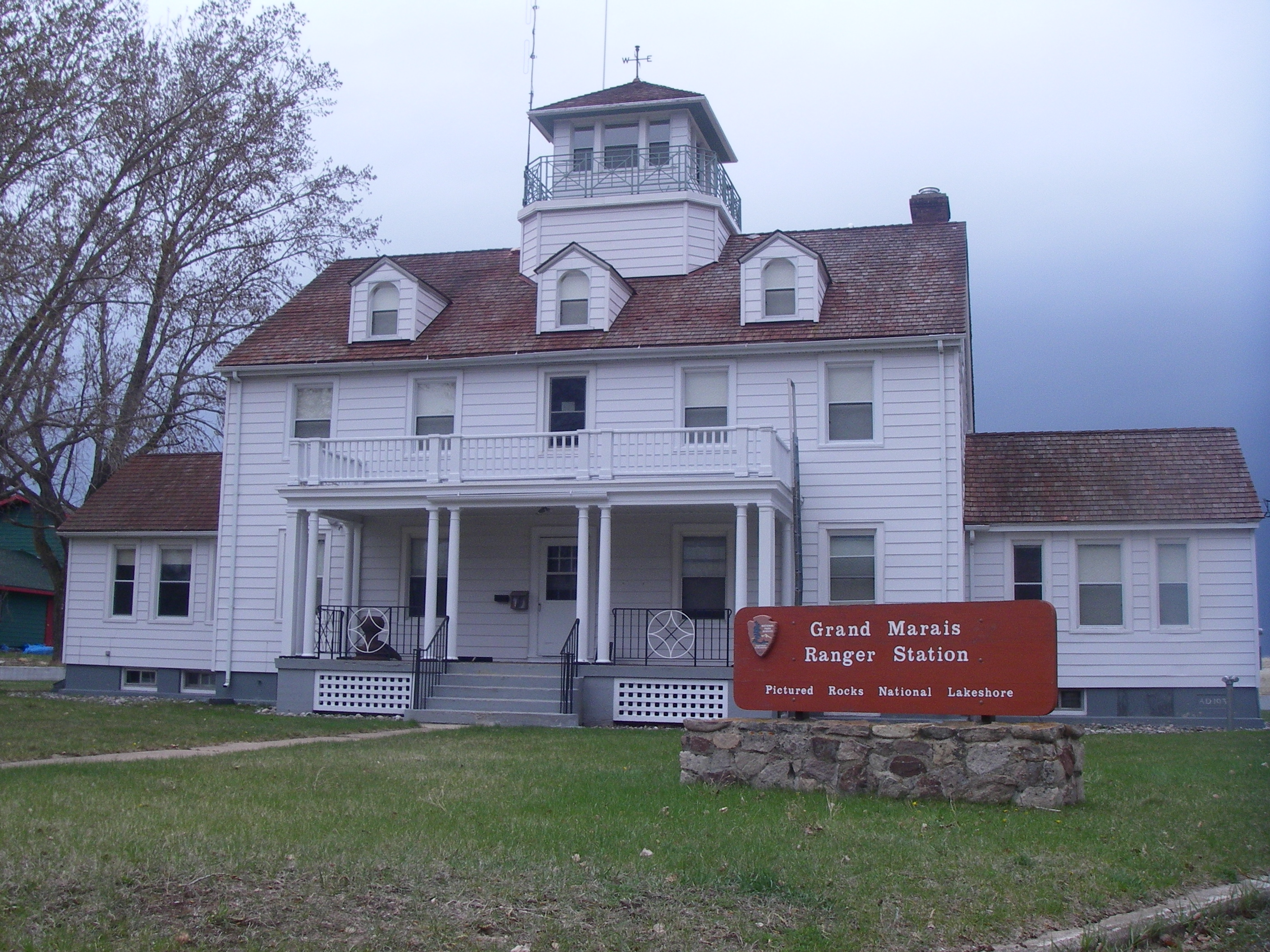 Former U.S. Coast Guard Life-saving Station at Grand Marais, Michigan now serving as a Ranger Station for the Pictured Rocks National Lakeshore